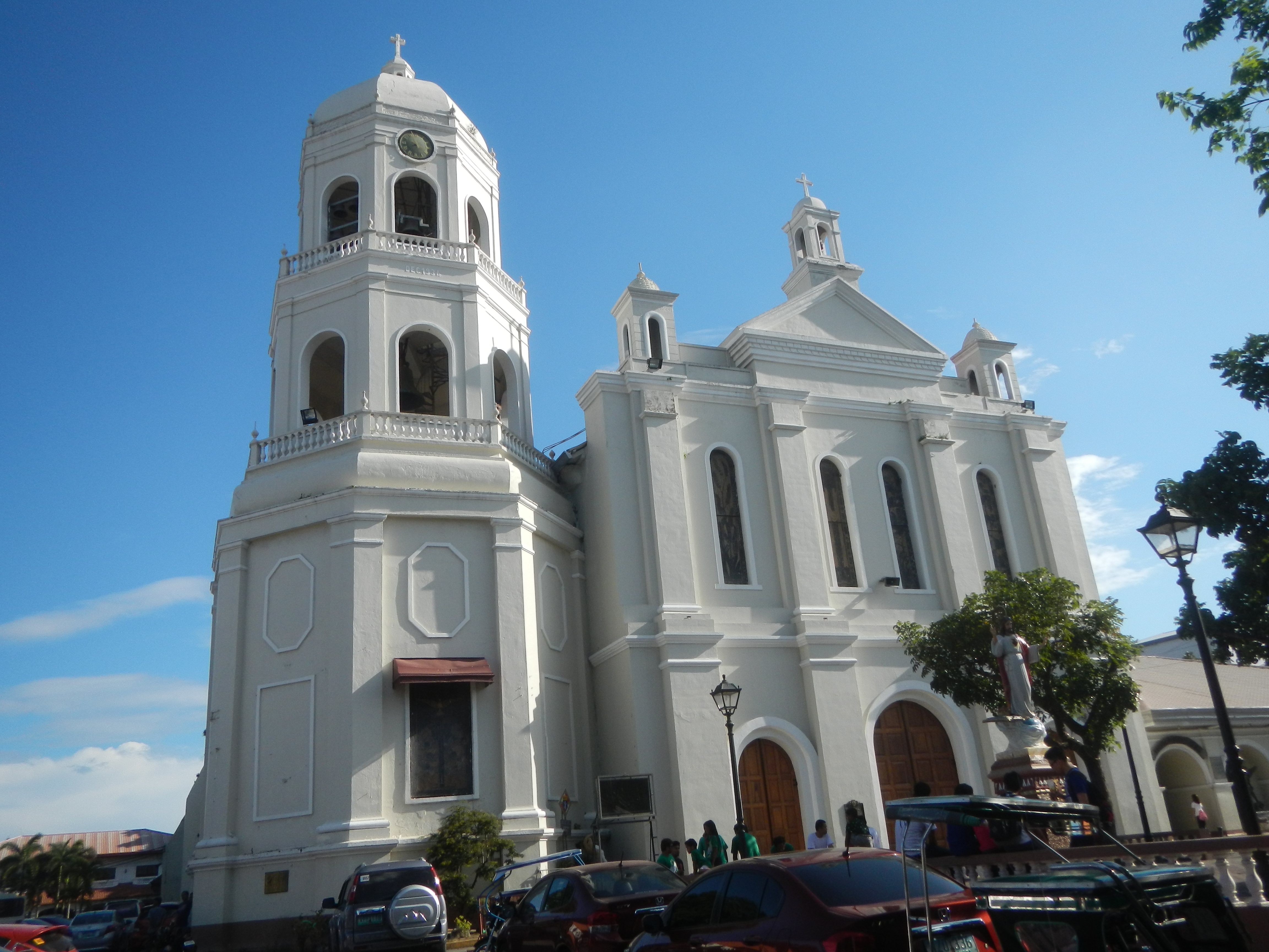 City Proper (P. Burgos, M. H. Del Pilar, Panganiban & P. Dandan Streets and Rizal Avenue - Poblacion) of Batangas City Restoration of the Minor Basilica of the Immaculate Conception (Batangas City) Barangay Poblacion Batangas City (Note: Judge Florentino Floro, the owner, to repeat, Donor Florentino Floro of all these photos hereby donate gratuitously, freely and unconditionally all these photos to and for Wikimedia Commons, exclusively, for public use of the public domain, and again without any condition whatsoever).